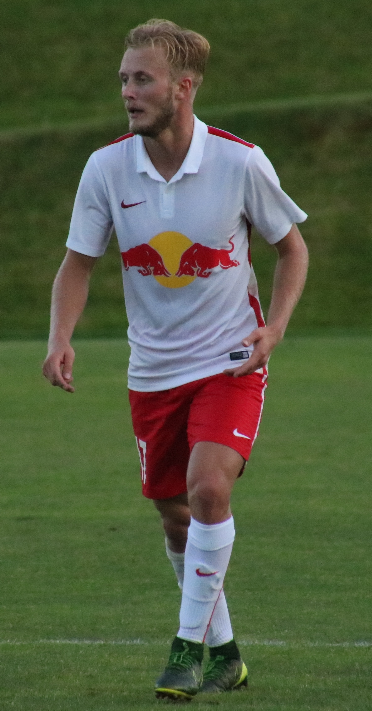 preseason friendly match